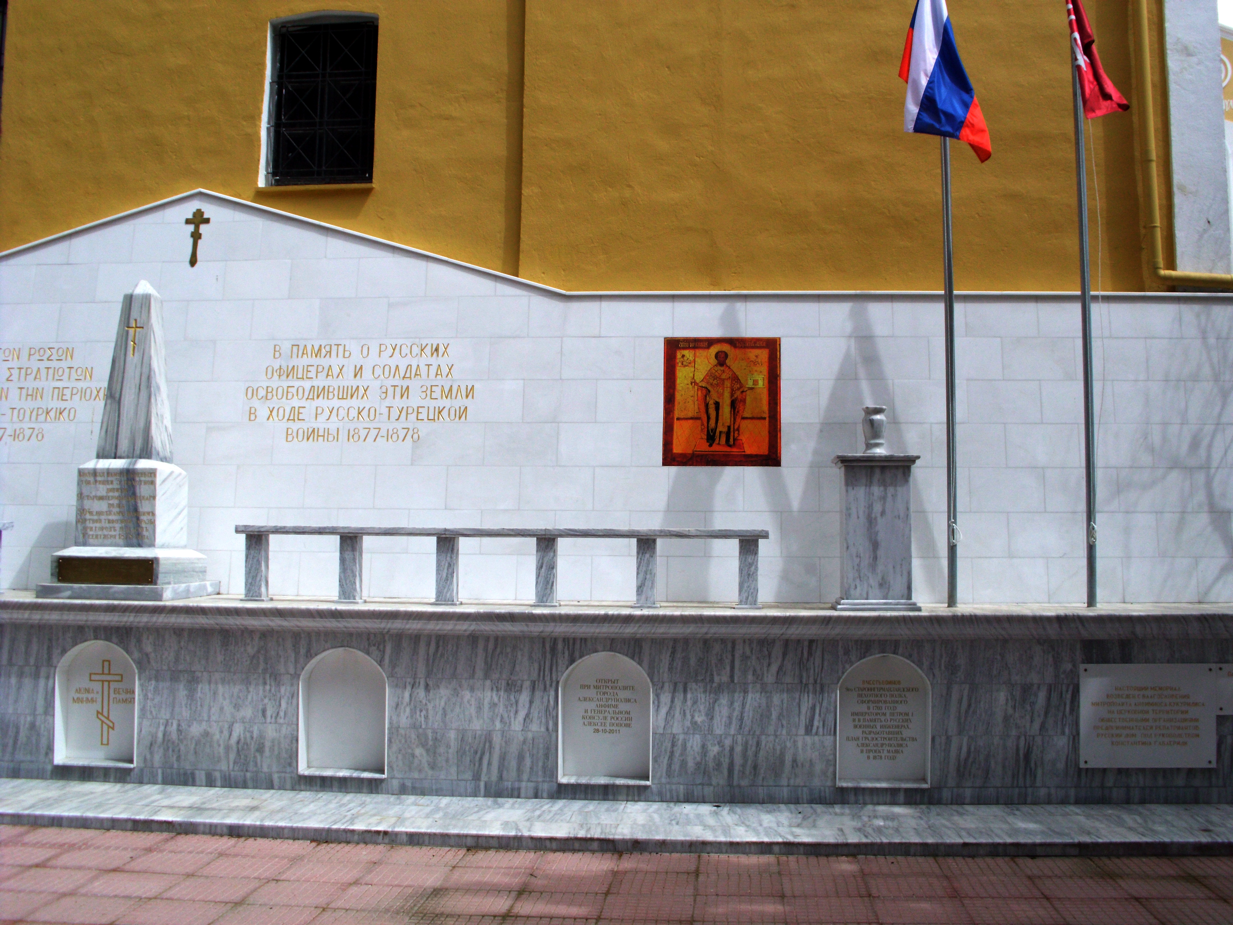 Monument in Dedeagach of liberation of region 1877-78 russo-turk war fallen russian solders